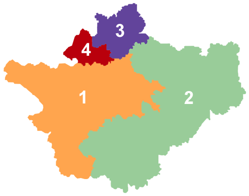 Sketch map of Cheshire showing four unitary authorities. 1=Cheshire West & Chester; 2=Cheshire East; 3=Warrington; 4=Halton